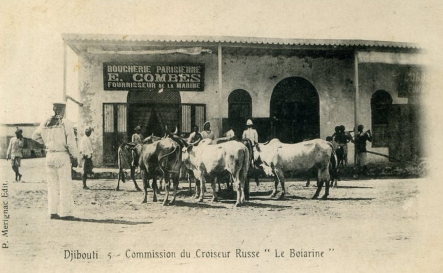 Cattle intended for slaughter at a Djibouti butcher shop in 1902. The meat was destined to the Russian cruiser Boyarin at anchor at Djibouti for coaling and taking in supplies. The Boyarin was sunk early in 1904 during the Russo-Japanese War. Local Djibouti postcard issued in 1902-1903.